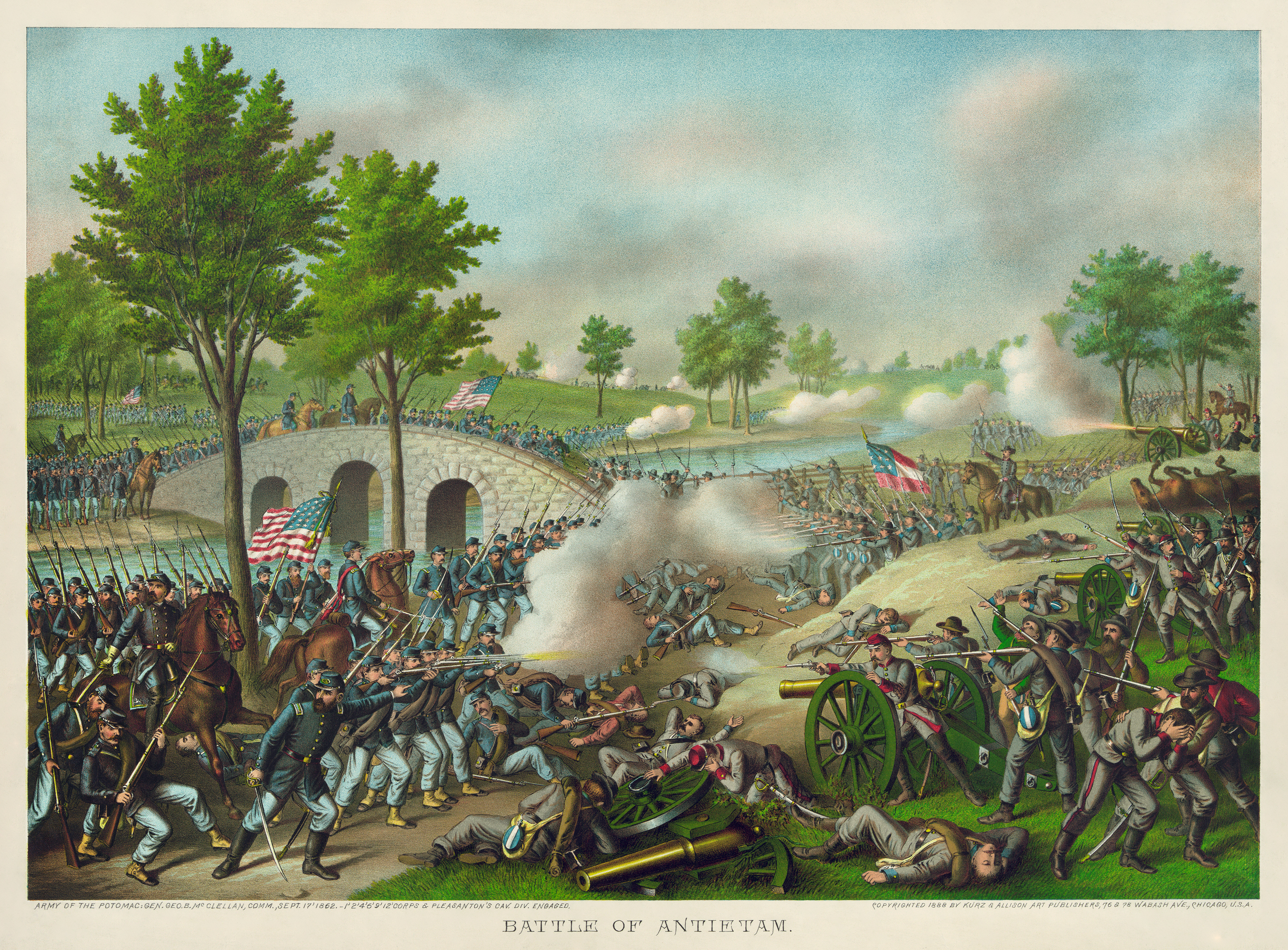 "Battle of Antietam. Army of the Potomac: Gen. Geo. B. McClellan, comm., Sept. 17' 1862. - 1' 2' 4' 6' 9' 12' Corps & Pleasanton's cav. div. engaged." Color lithograph.